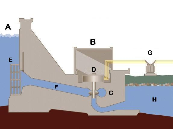 Hydroelectric dam A - reservoir, B - powerhouse, C - turbine, D - generator, E - intake, F - penstock, G - long distance power lines, H - river